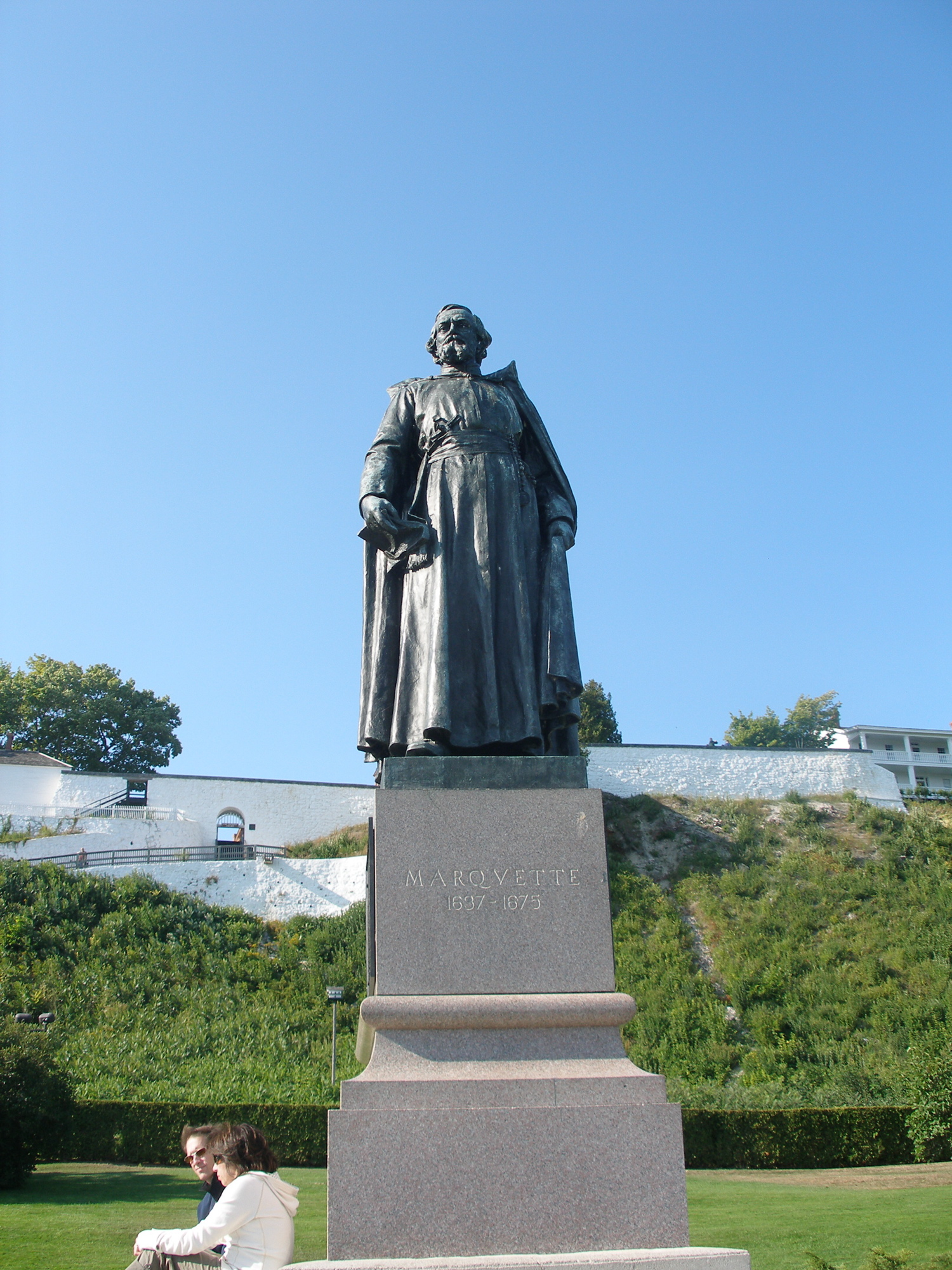 Statue of Père Jacques Marquette on Mackinac Island, Michigan.